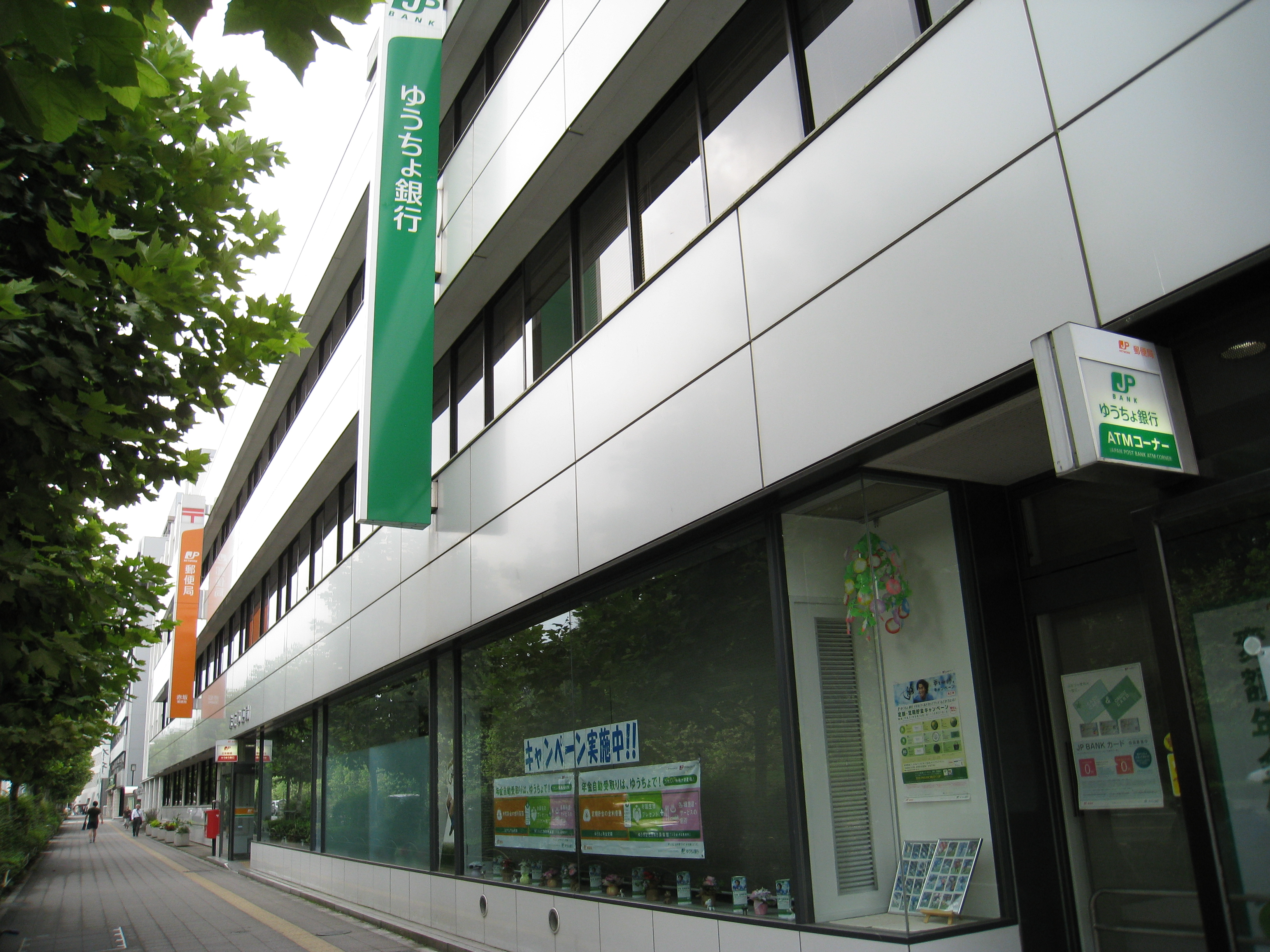 Akasaka Post Office in Minato Ward, Tokyo, Japan